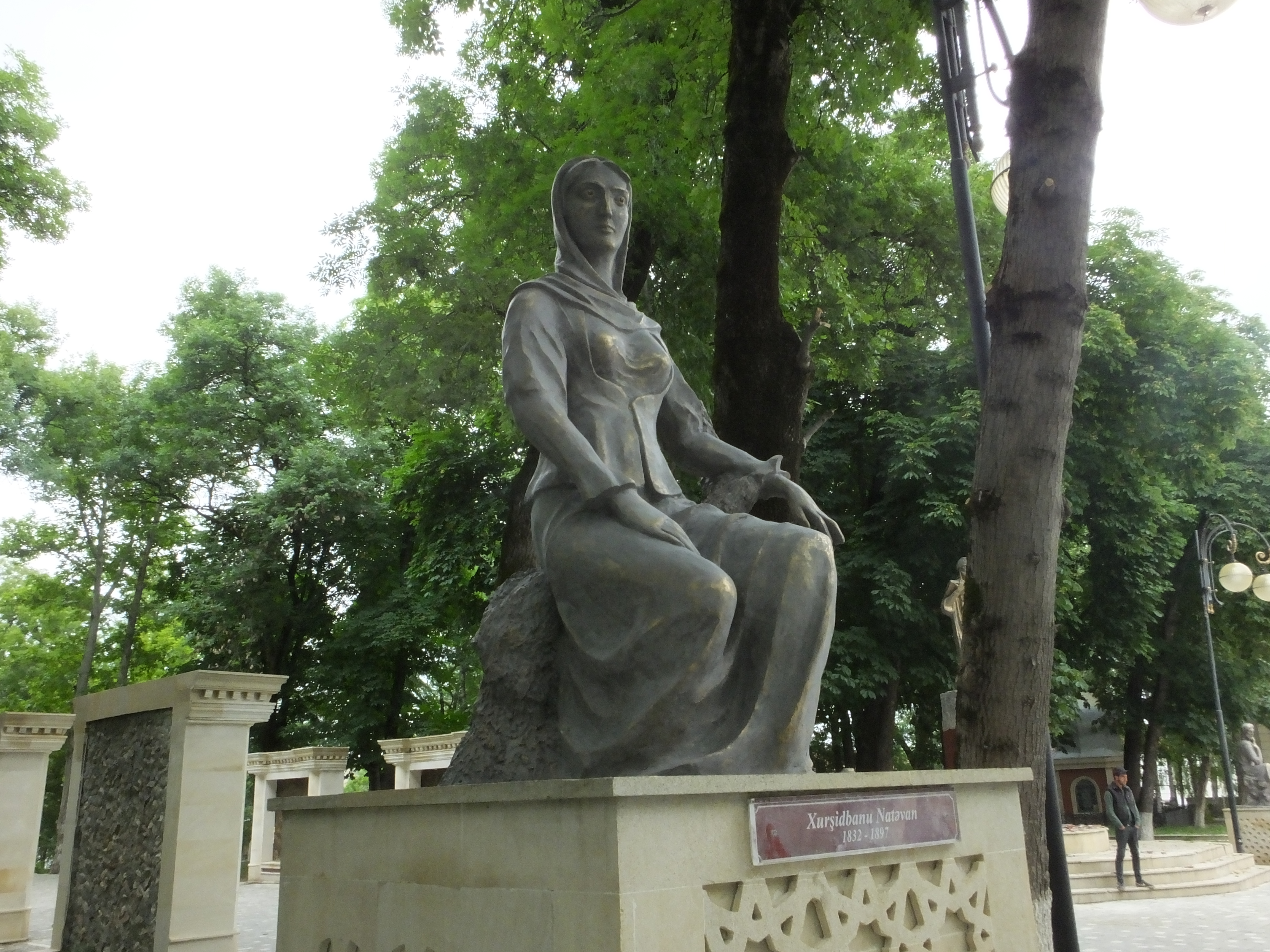 A picture of Khurshidbanu Natavan's statue in Guba, taken by Aykhan Zayedzadeh for 2018 Spring WikiCamp Azerbaijan